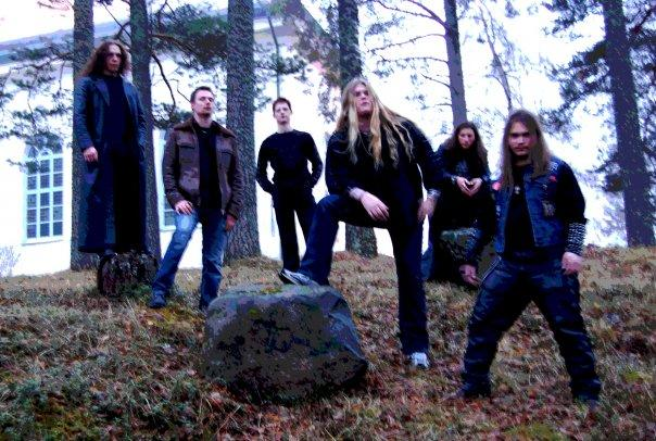 Reinxeed members